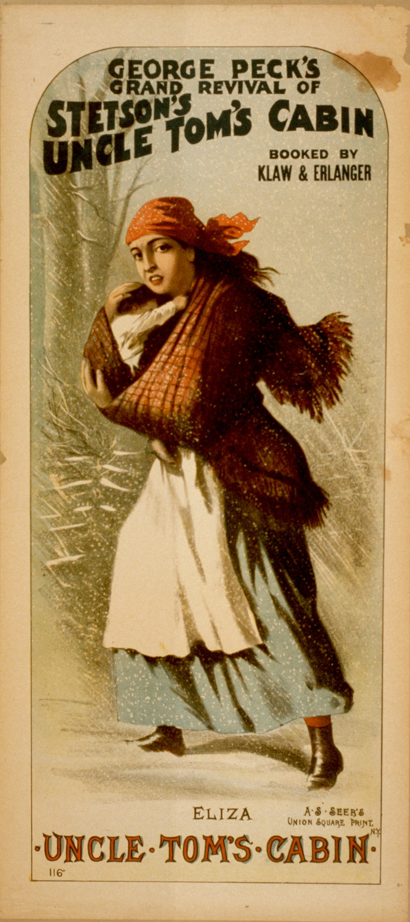 1886 poster for "George Peck's grand revival of Stetson's Uncle Tom's cabin, booked by Klaw & Erlanger." (Stage play based on Uncle Tom's Cabin)